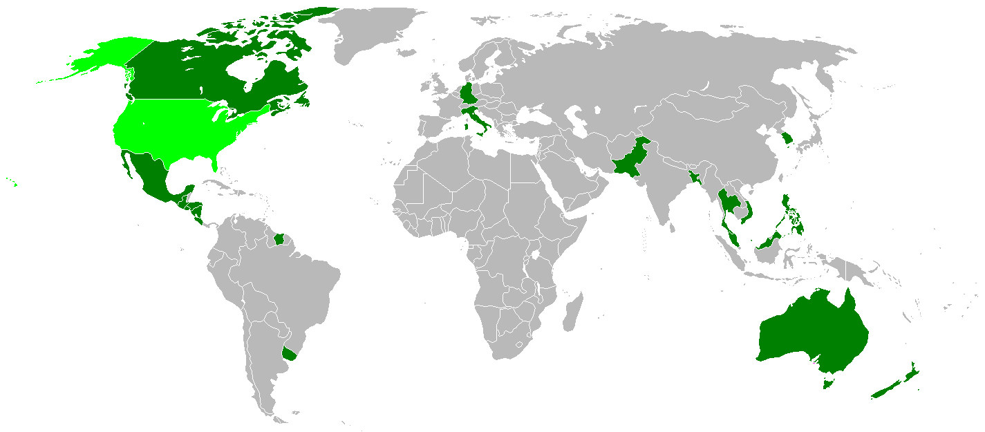 Foreign trips of Lyndon Johnson during his presidency.